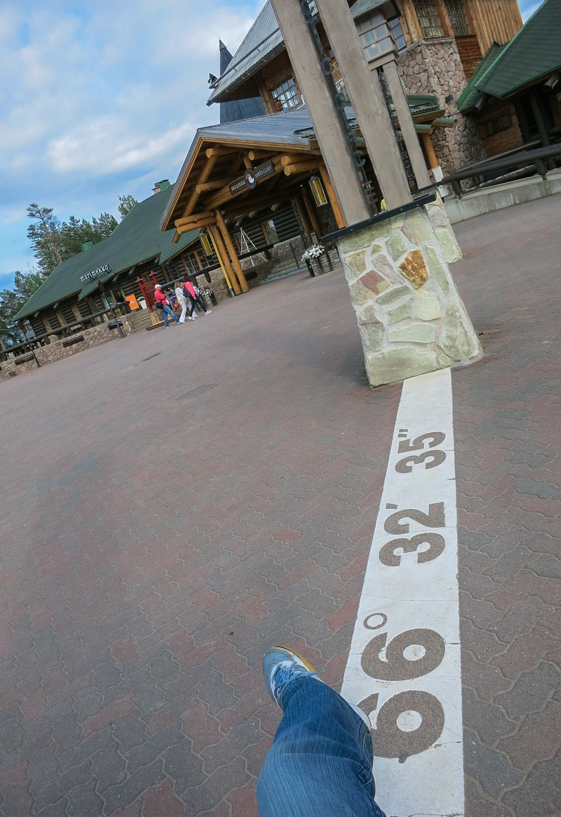 Stepping over Arctic Circle. (Santa Claus Village, Rovaniemi, Lapland, Finland)